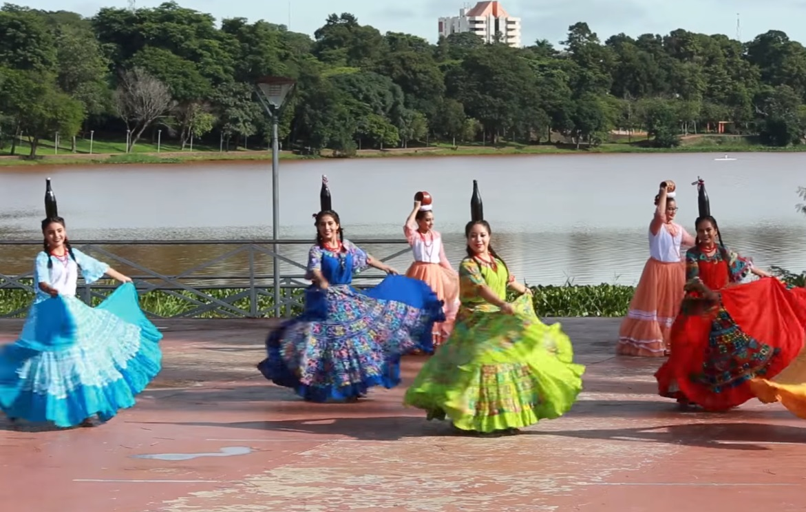 Bottle dance is part of the paraguayan culture. In the picture, ladies dancing the bottle dance during the Folklore Day on 22th August, in Lake Republic, Ciudad del Este.